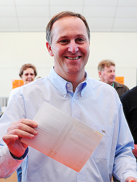 John Key placing his vote in the ballot box for the Epsom electorate.